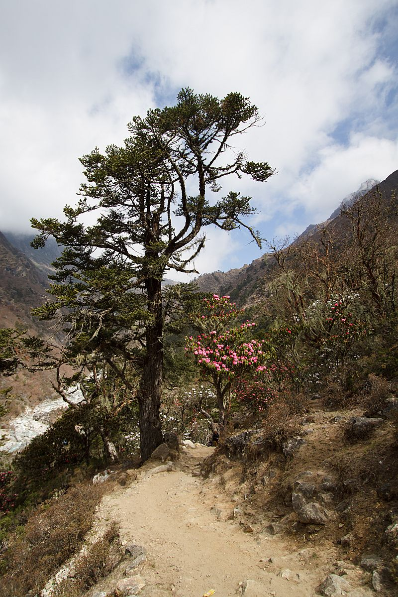 photo taken on the Mount Everest Base Camp Trek - day 11 - Phortse to Namche Bazar